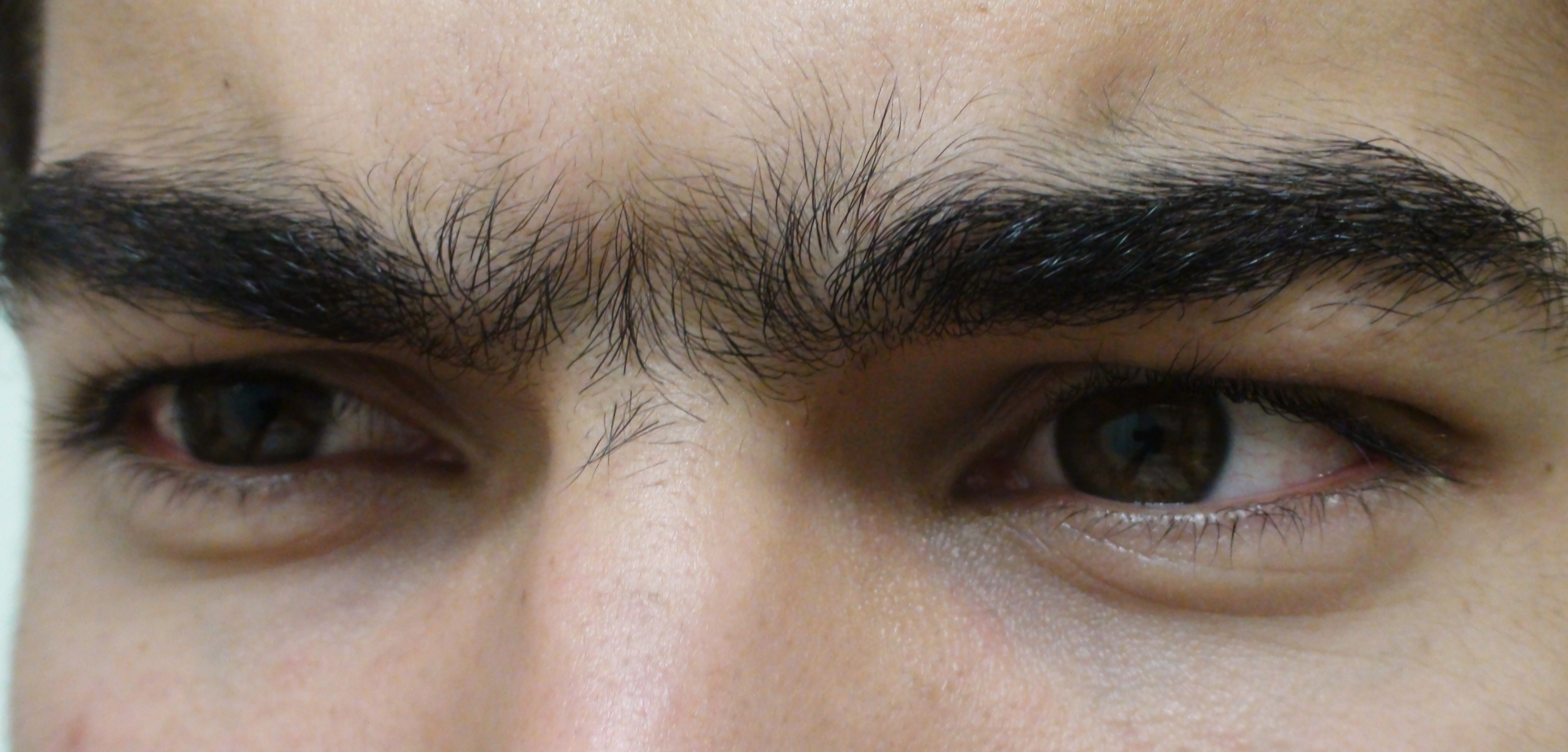 This is upon request for a better photo for the Unibrow page. It provides a clean, clear look at the unibrow or monobrow.